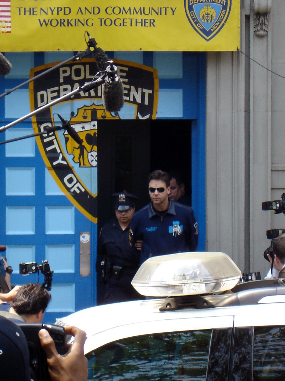 Russell Crowe en route to his arraignment for (as he later admitted) throwing a phone at a hotel clerk.